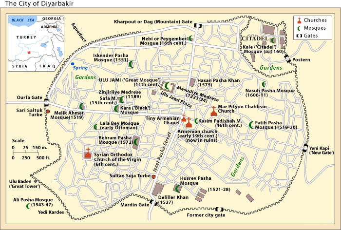 The City of Diyarbakir